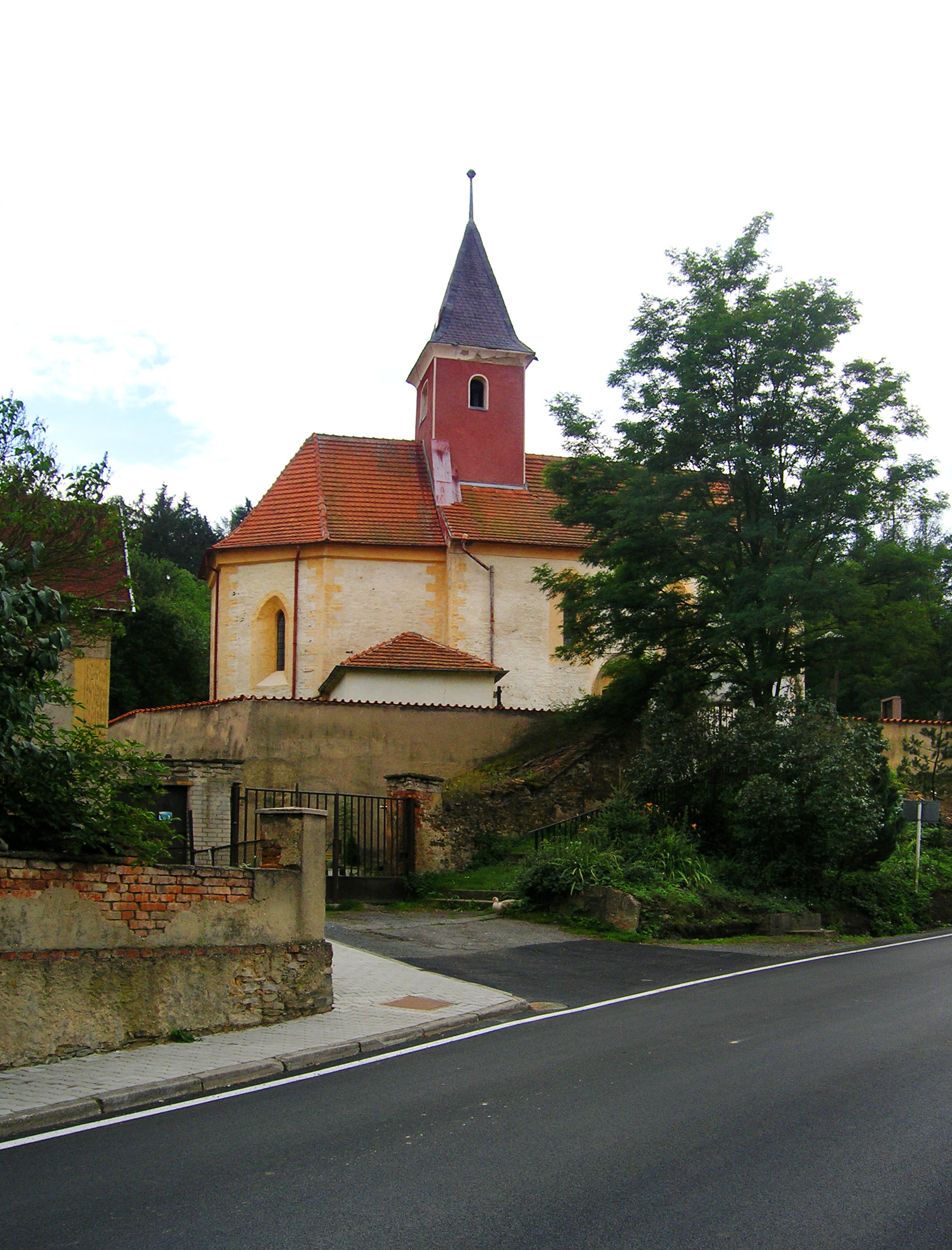 Saint Giles church in Libeř, Prague-West District, Czech Republic